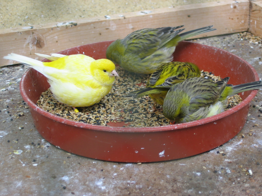 Inveresk Lodge Gardens, East Lothian, Scotland